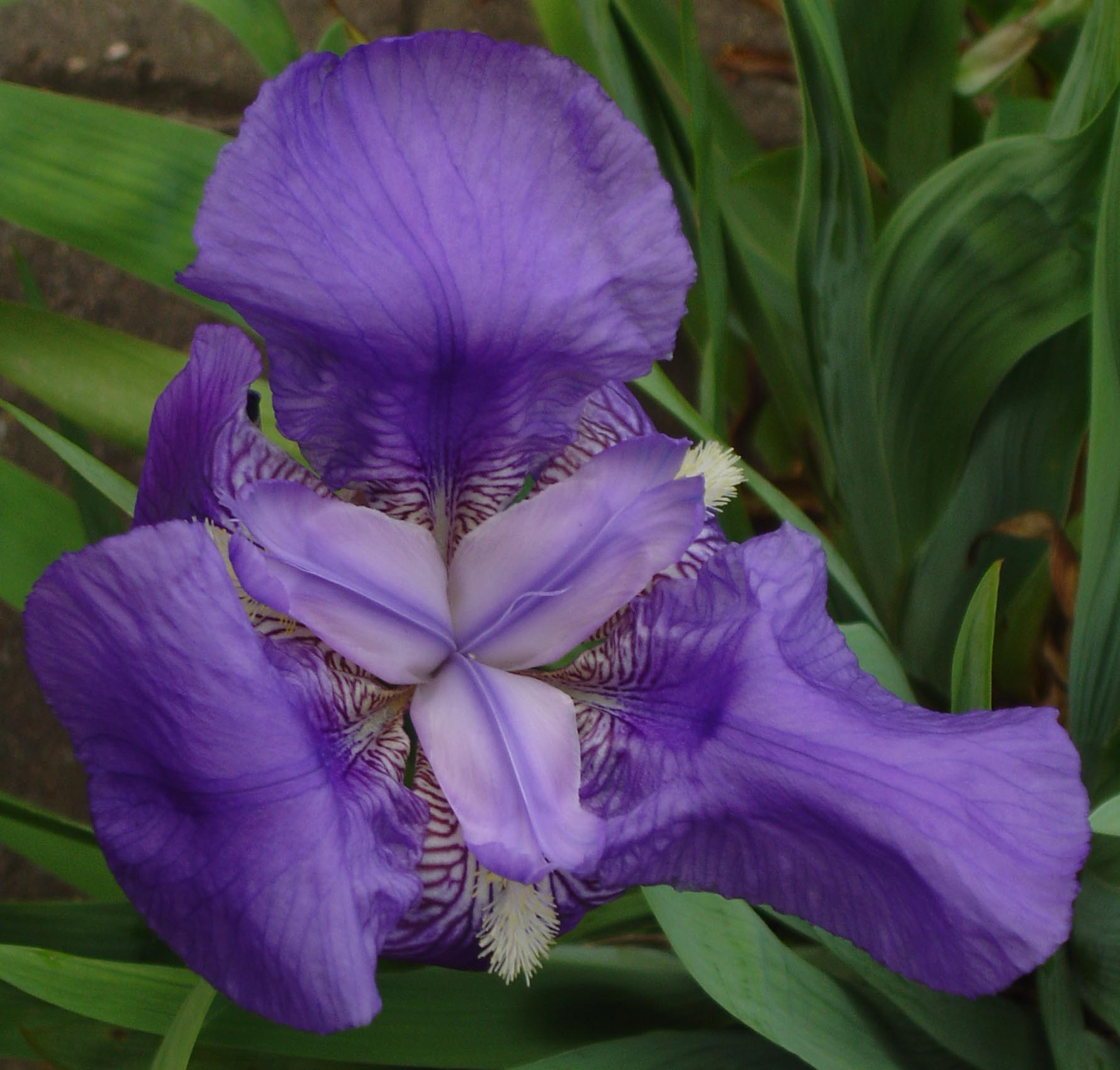 Name Iris Germanica-Hybr. Family Iridaceae Photographer Isabelle Grosjean ZA Date 2004-04-29 License GNU FDL Camera Sony PSC-P92